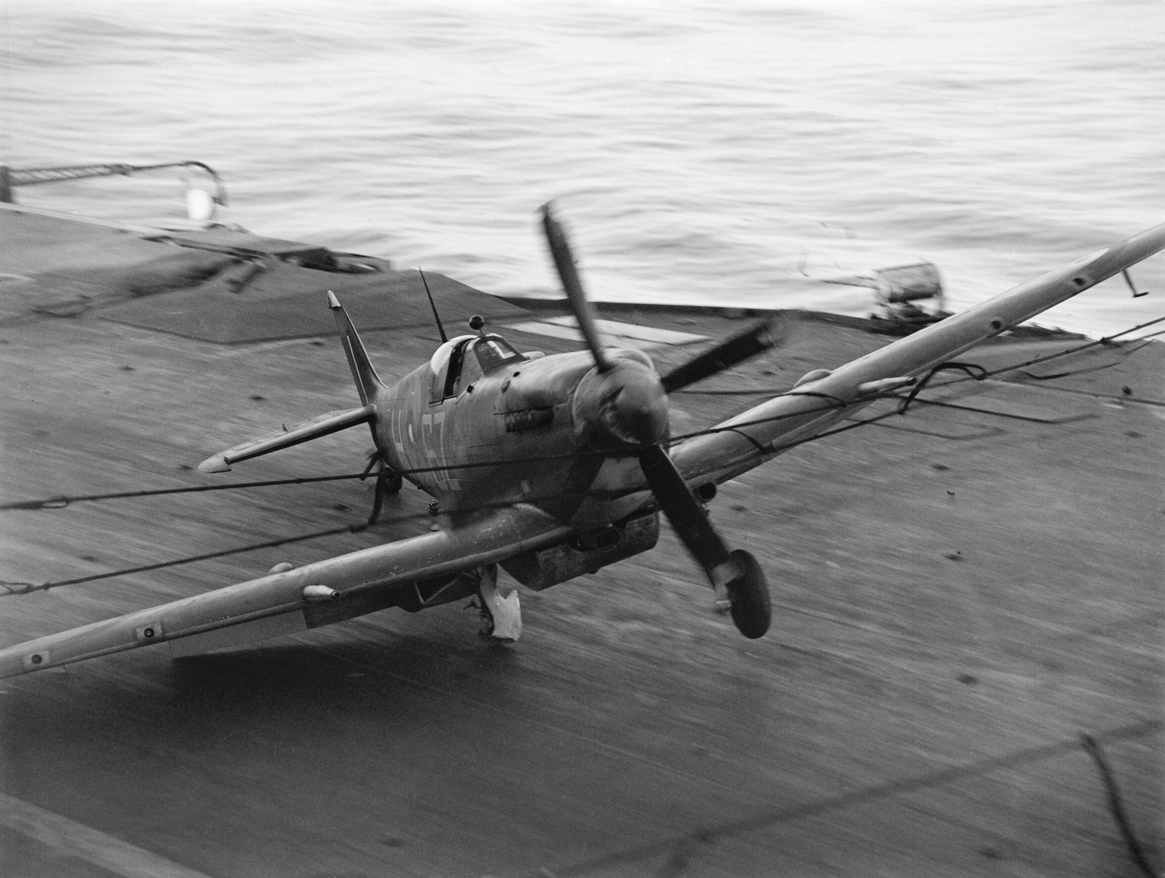 A Supermarine Seafire hits the barrier on HMS INDEFATIGABLE after returning from a strike on the Japanese oil refinery at Pangkalan Brandan, Sumatra, 1 April 1945. A Supermarine Seafire hitting the barrier on HMS INDEFATIGABLE after returning from the strike on a Japanese oil refinery at Pangkalan Brandan, Sumatra. Note the broken undercarriage. Weather conditions were excellent and the whole weight of bombs and missiles from the Grumman Avengers and Fairey Fireflies fell within the target area. The powerhouse and other important plants, together with oil tanks and buildings, received direct hits.